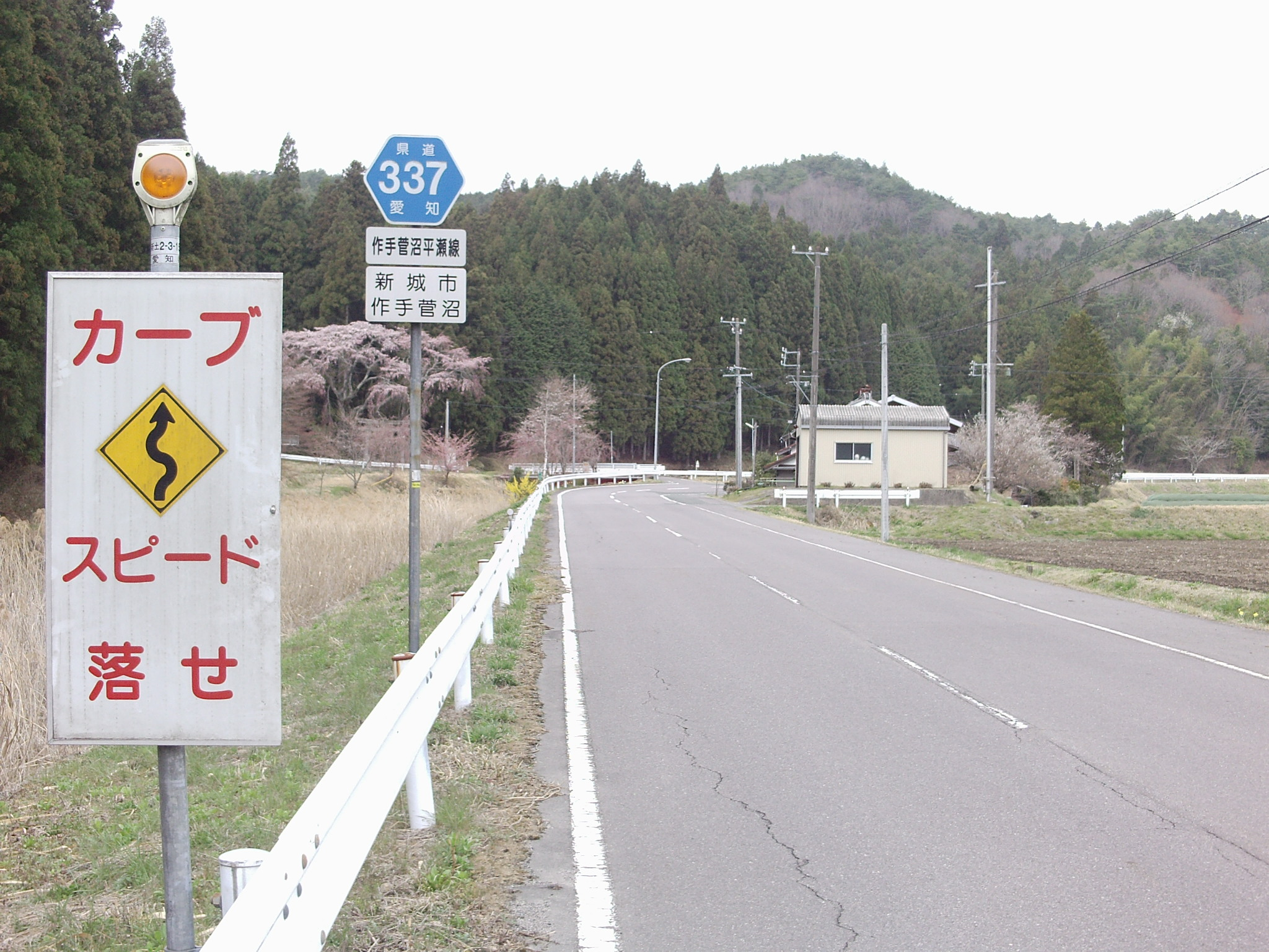 Aichi prefectural road No.337 in TsukudeSuganuma, Shinshiro, Aichi.